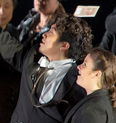 South Korean opera singer Jongmin Park (left, as Dottore Grenvil) and Rebecca Jo Loeb (right, as Annina) in the 2013 production of La traviata at the Hamburgische Staatsoper